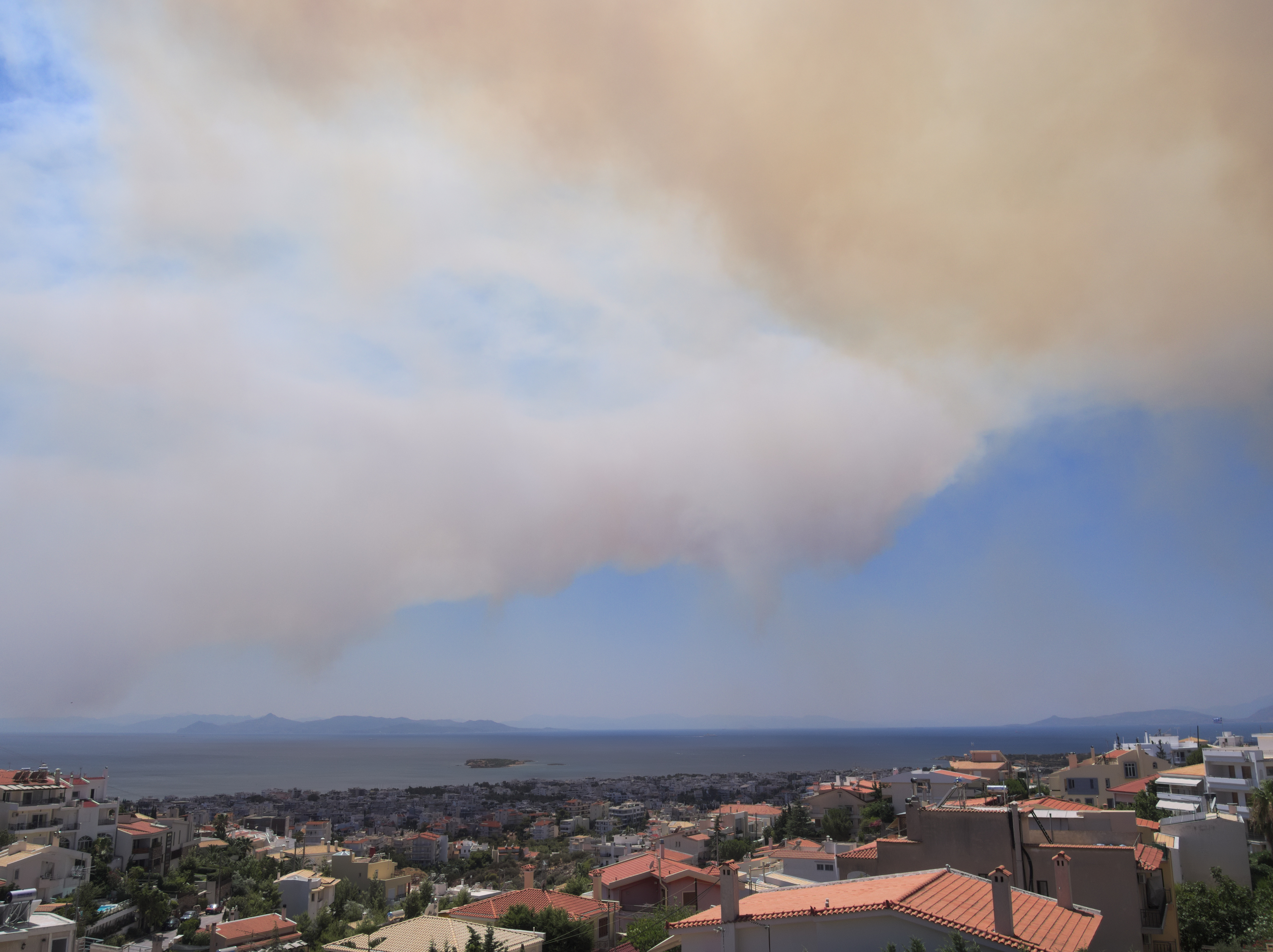 The smoke above the Saronic gulf caused by a wildfire near Kareas, Athens, 17 July 2015.